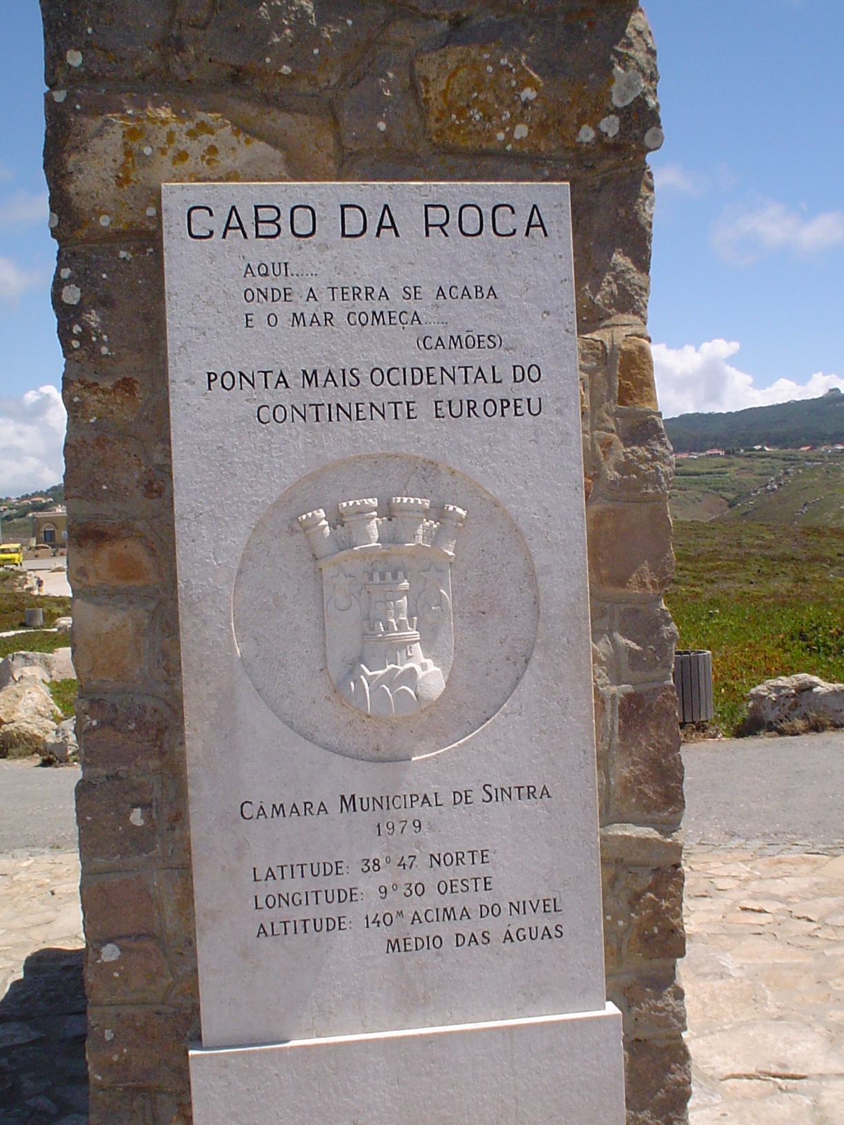 Description Cabo da Roca allOther versions geen Cabo da Roca